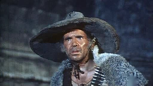 José Manuel Martín as Cherokee in the Gino Mangini film Bastard, Go and Kill (1971)